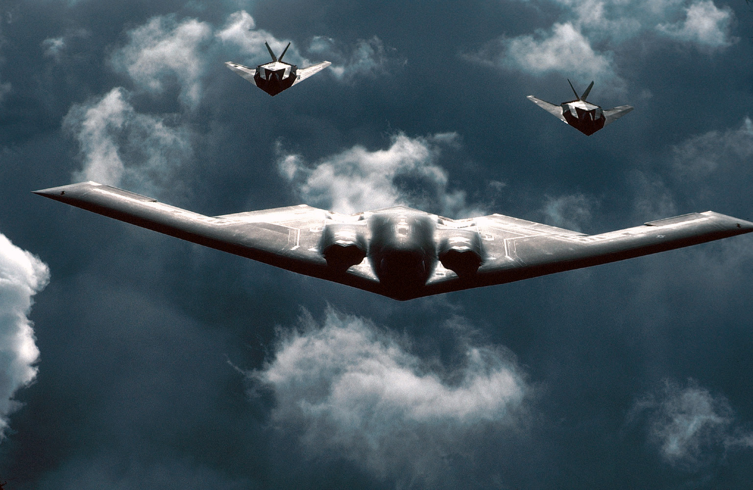 A B-2 Spirit bomber is followed by two F-117 Nighthawks during a mission.